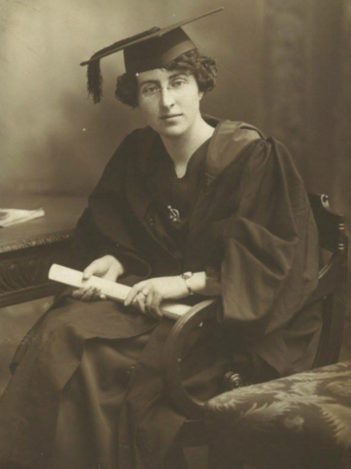 Photograph of Brigid Lyons Thornton, Irish Doctor and Revoluntionary.